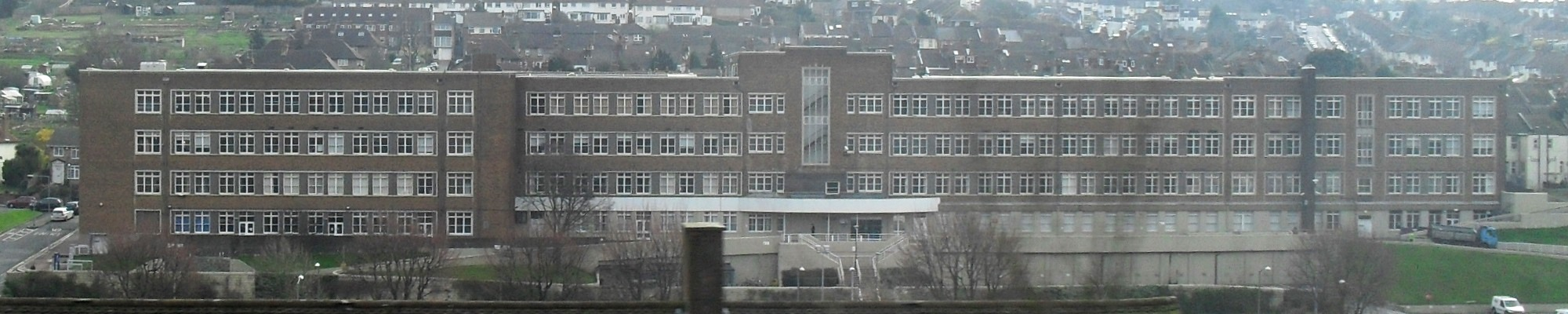 Mithras House, Lewes Road, Brighton, City of Brighton and Hove, England. Built in 1939 as an administrative and design office for the Allen West electrical engineering company. Sold in 1968 during a period of retrenchment; bought by a property company in 1972; later sold to East Sussex County Council, who passed it on to Brighton Polytechnic (now the University of Brighton). It is now one of the University's main buildings. This picture was taken from a westbound train on the West Coastway Line between Moulsecoomb and London Road stations.